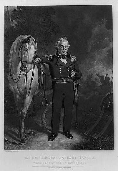 Major-General Zachary Taylor--President of the United States / from an original daguerreotype ; engraved by John Sartain.